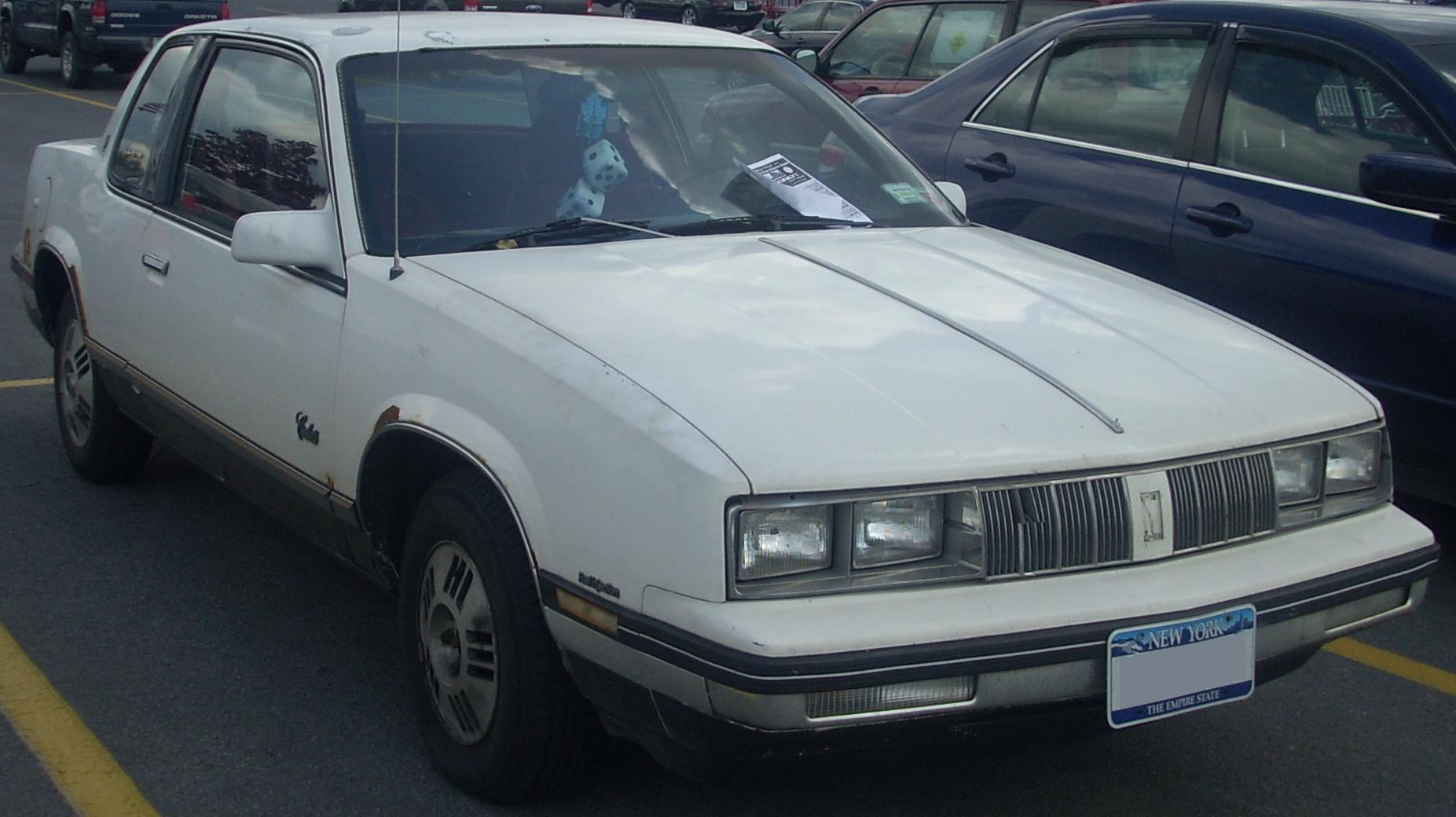 1985-1986 Oldsmobile Calais photographed in Plattsburgh, New York, USA.